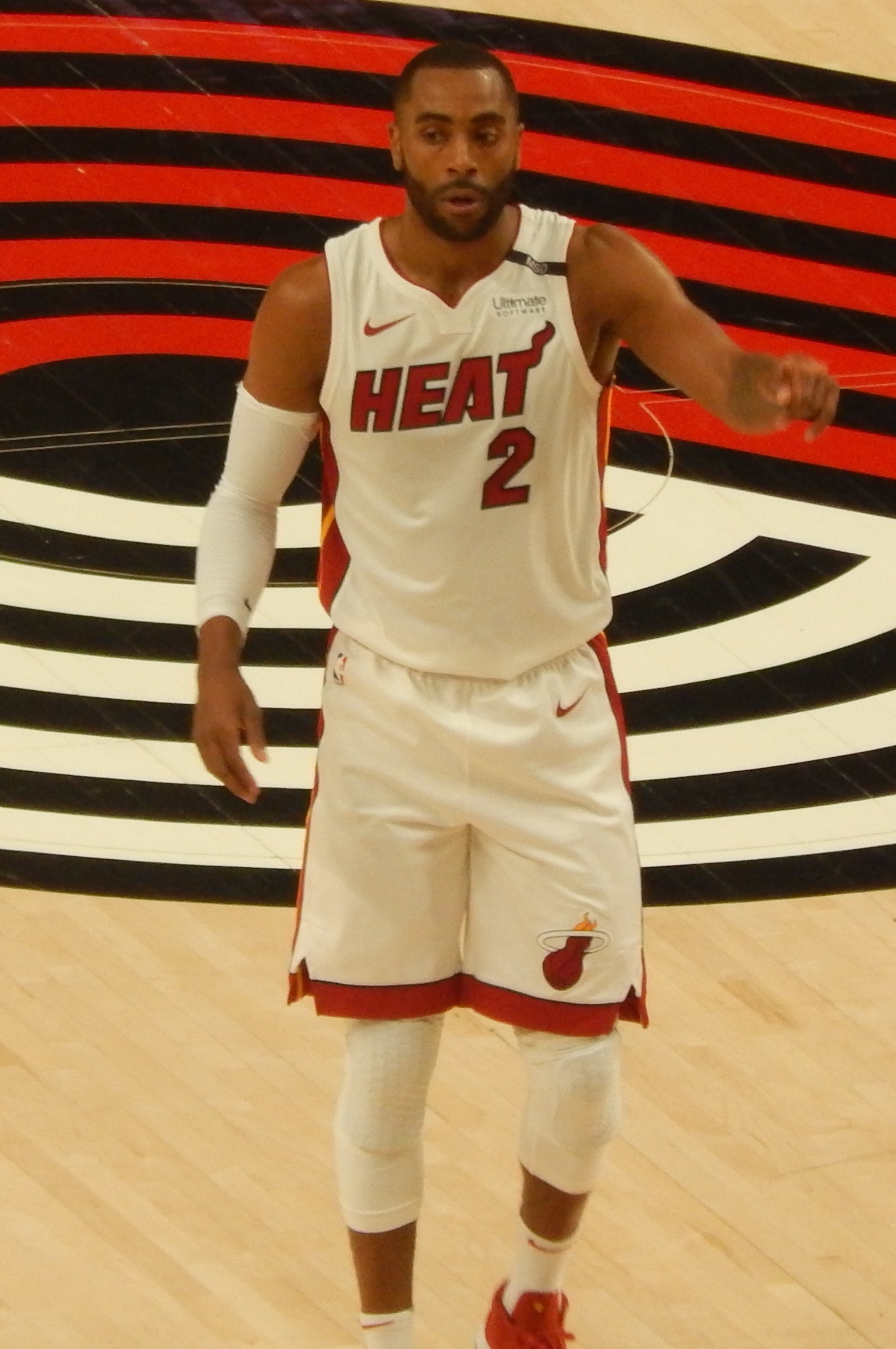 Wayne Ellington #2 of the Miami Heat against the Portland Trail Blazers on March 12, 2018 at Moda Center in Portland, Oregon.